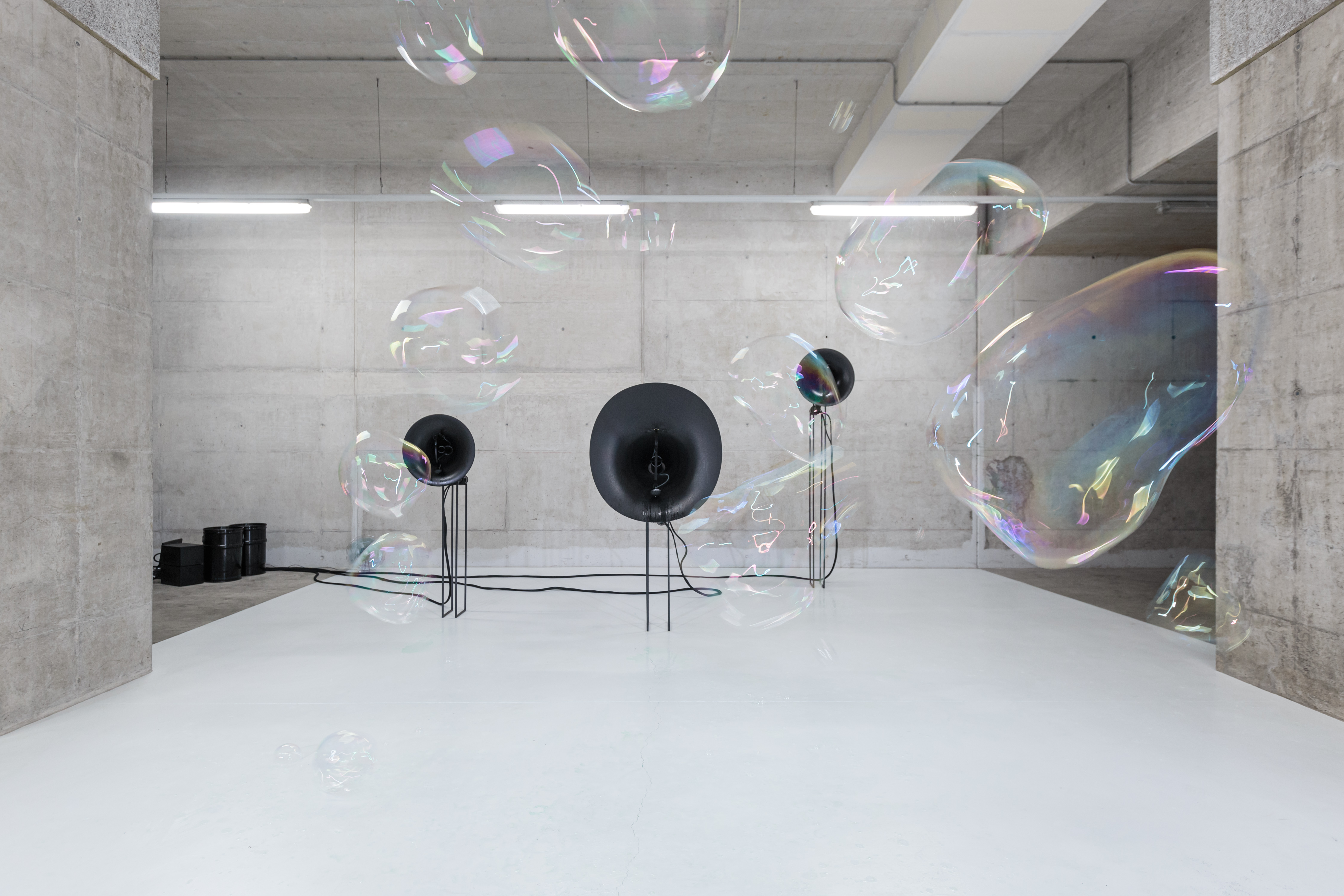 Installation View of the installation "Black Hole Horizon" by artist Thom Kubli at Ars Electronica Festival 2016 in Linz, Austria.